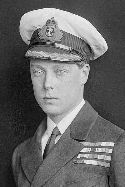 Official portrait of Edward VIII wearing his naval uniform in 1920.